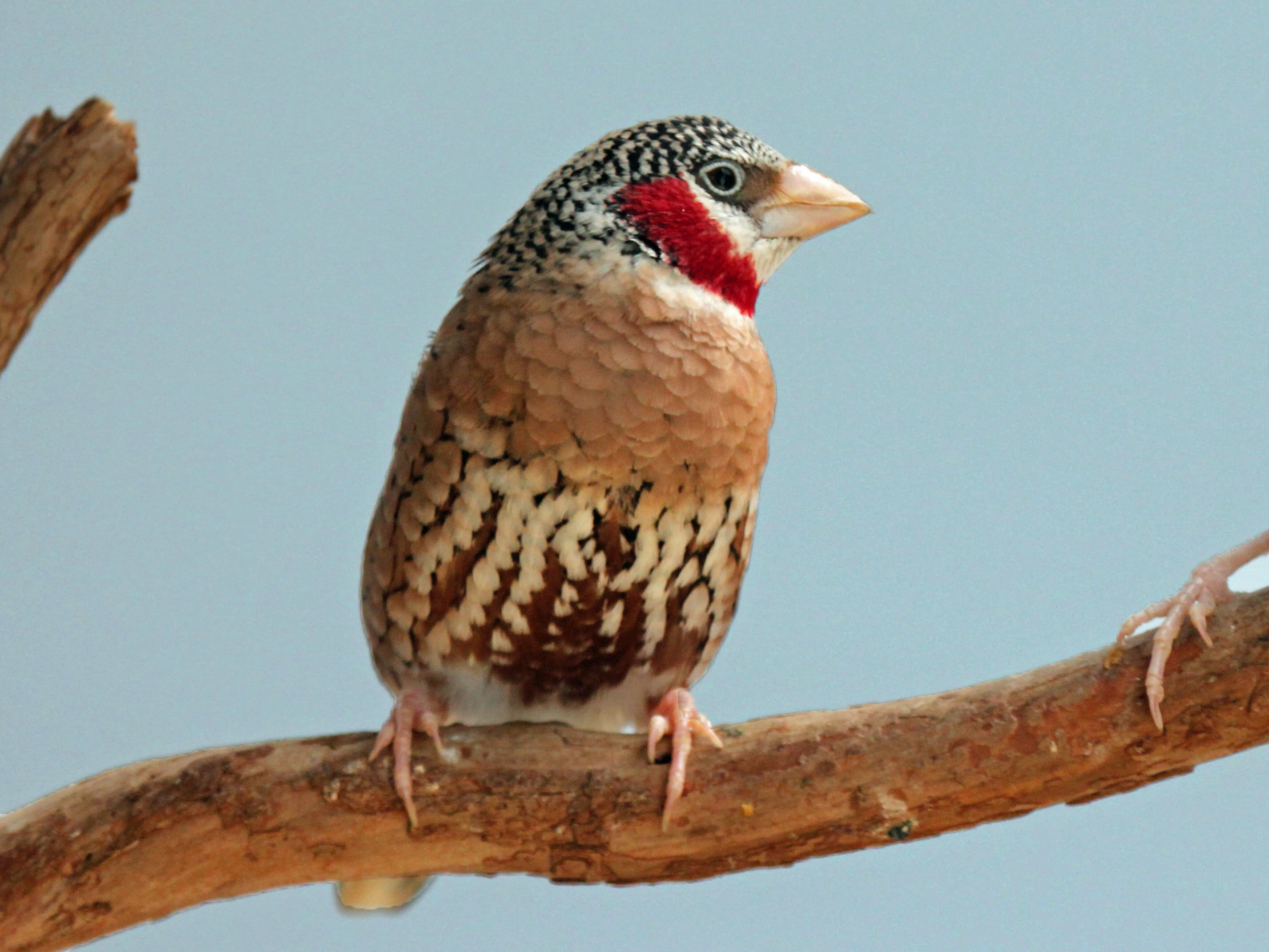 Male Cut-throat Finch (Amadina fasciata) - National Aviary in Pittsburgh, Pennsylvania.